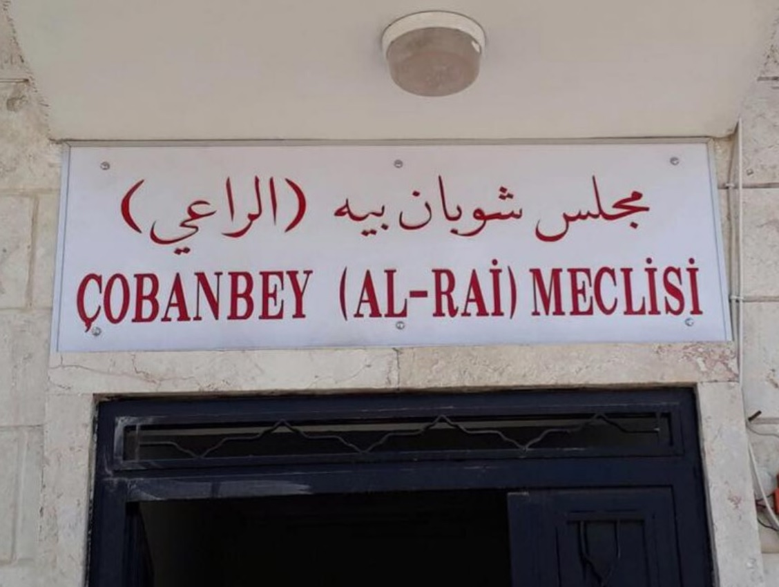 Çobanbey (Al-Rai) Counci